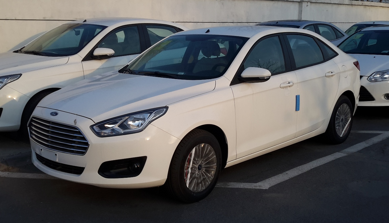 Ford Escort CN photographed in Beijing, China.